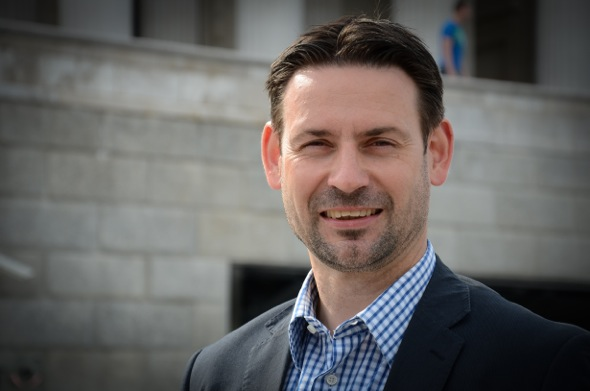 Friedrich Ofenauer is a member of parliament in Austria.